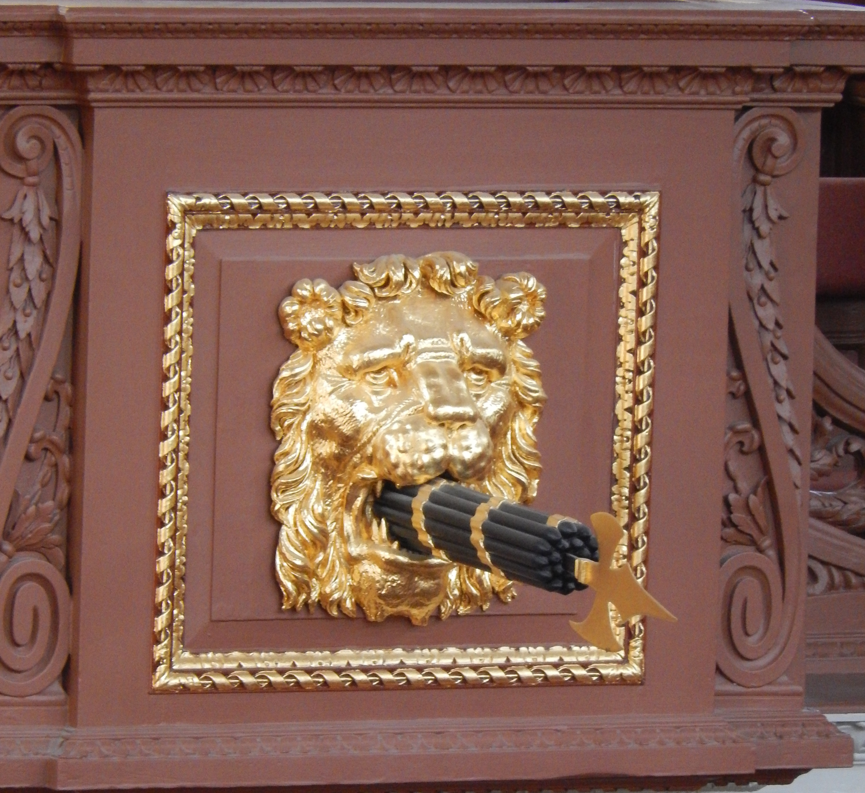 Ornamentation consisting of fasces held in the mouth of a lion inside the Sheldonian Theatre at Oxford University.